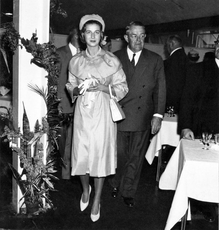 Princess Alexandra at the Royal National Show, Brisbane. (Royal visits)